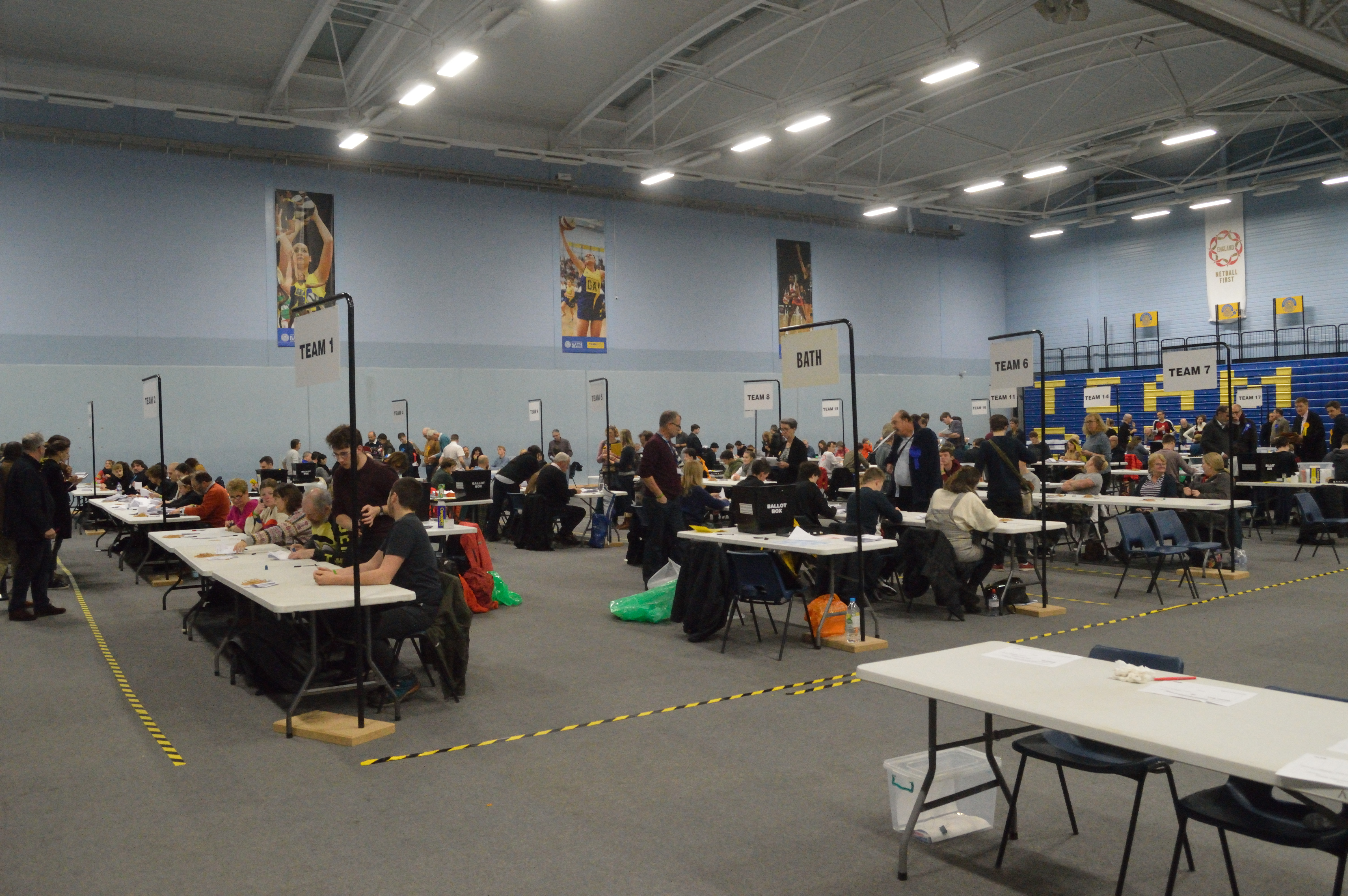 The count being carried out for the Bath constituency of the 2019 United Kingdom general election. The count was held in half of the University of Bath Sports Training Village hall, with the North East Somerset count in the other half of the hall.